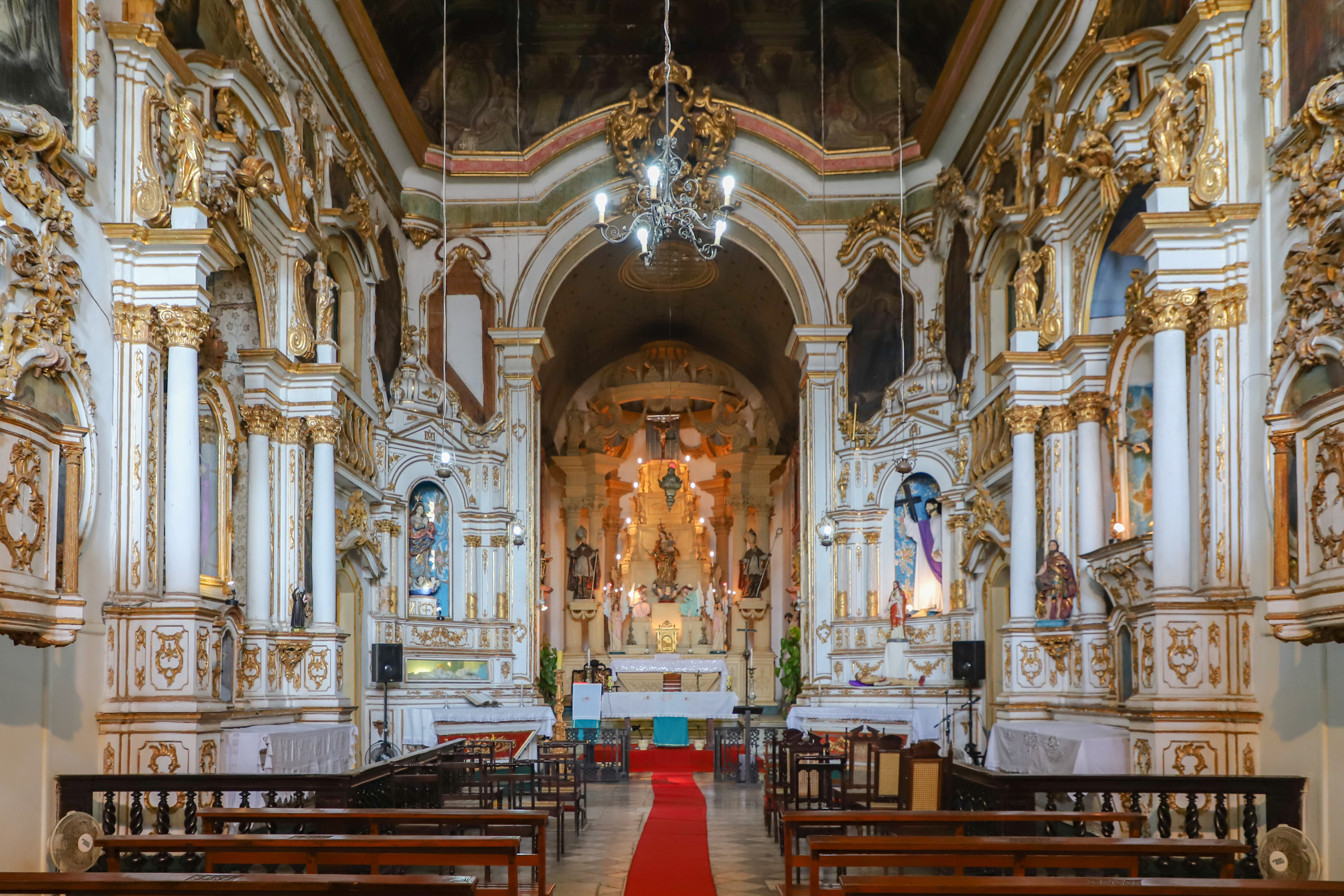 View of nave and chancel, Igreja e Convento de Nossa Senhora da Palma, Salvador, Bahia, Brazil.